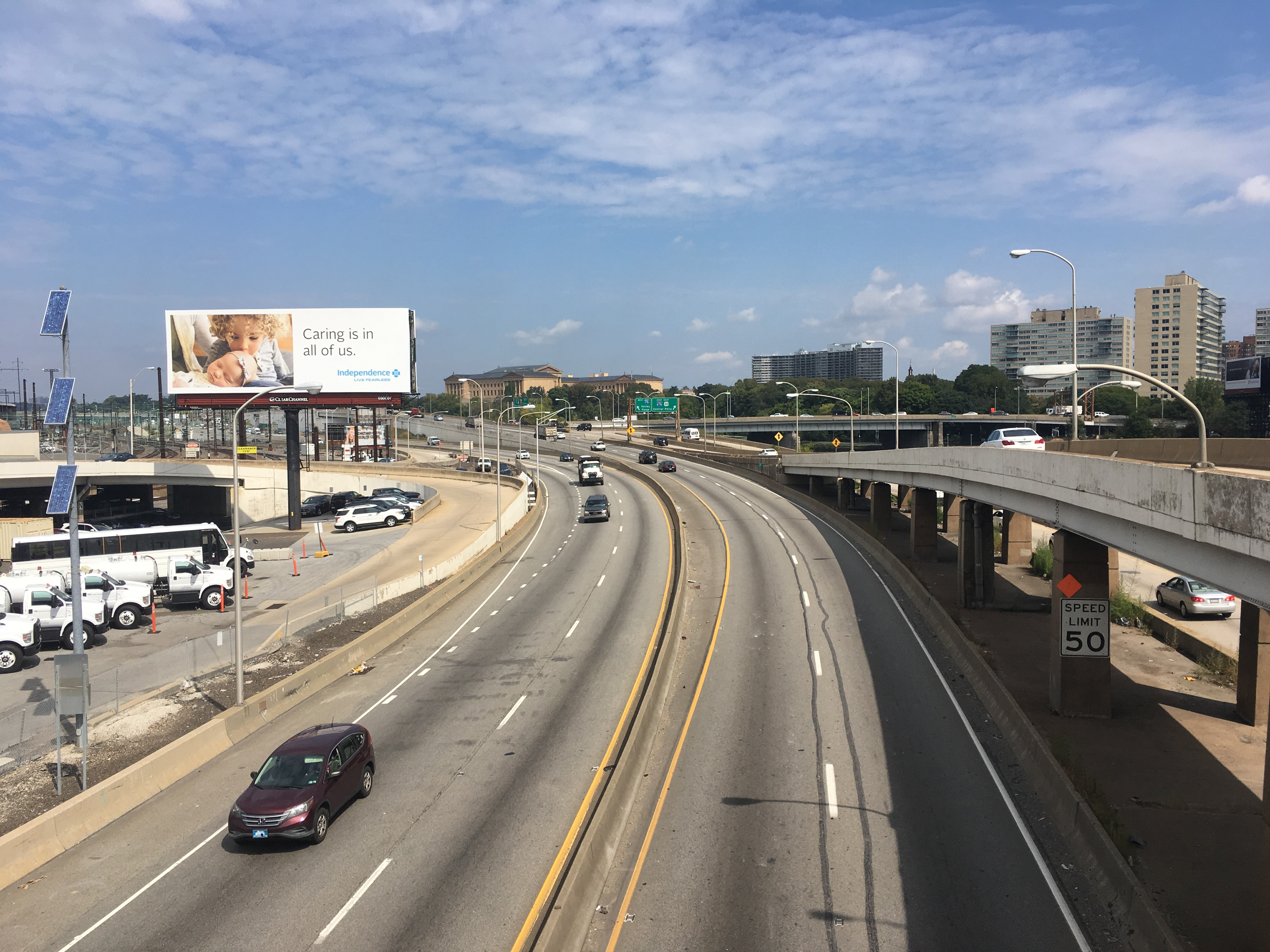 Westbound Interstate 76 (Schuylkill Expressway) at the interchange with Interstate 676/U.S. Route 30 (exit 344) in Philadelphia, Pennsylvania, viewed from the westbound Pennsylvania Route 3 (Arch Street) overpass